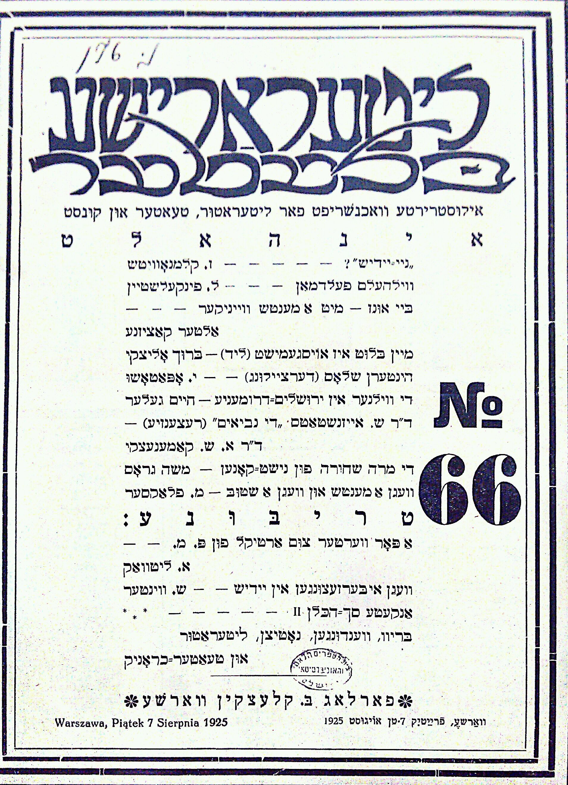 the Literarishe bletermagazine cover